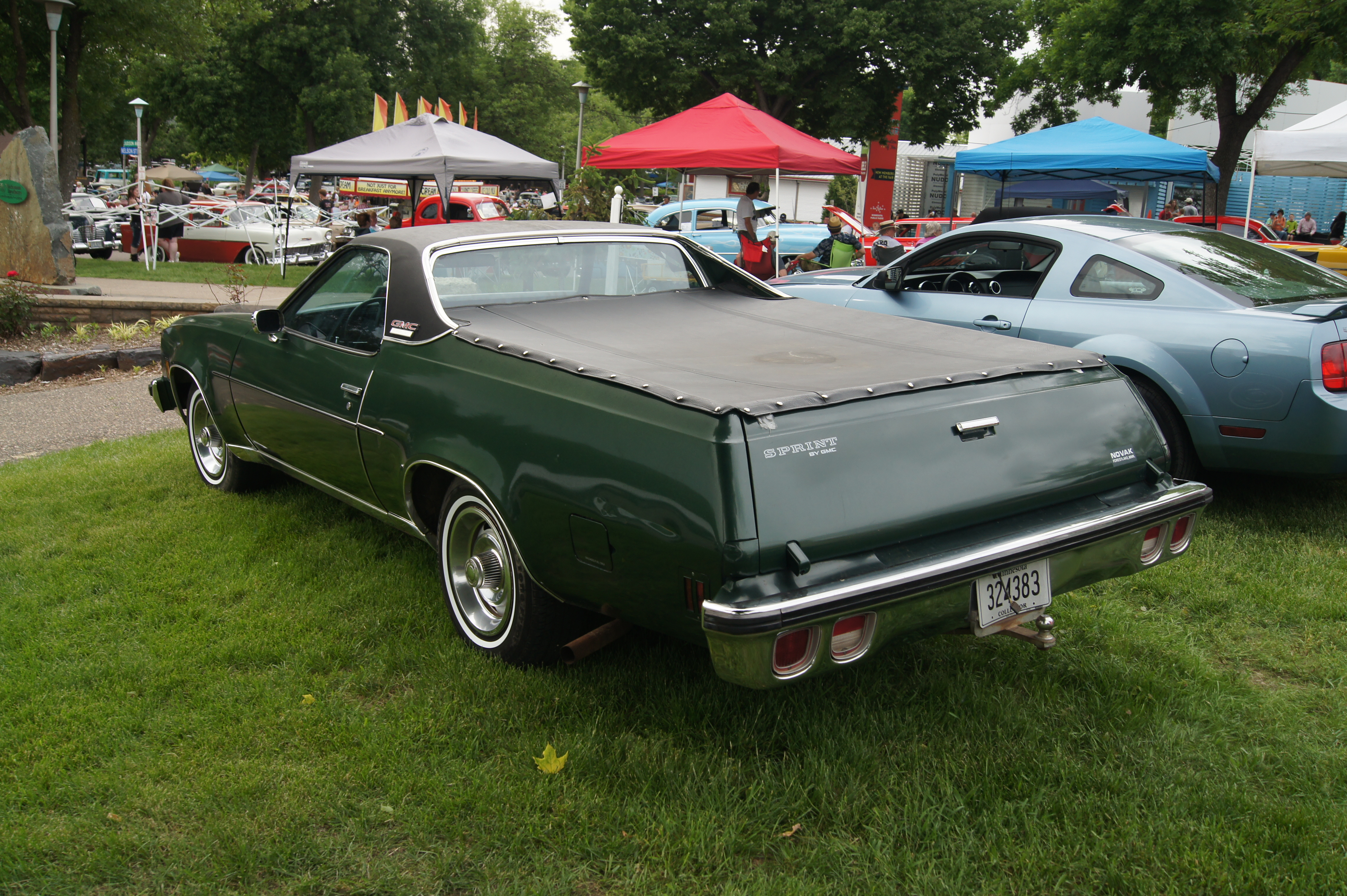 MSRA “BACK TO THE 50′s” 42nd Annual June 19-21, 2015 State Fairgrounds St. Paul Minnesota Click here for more car pictures at my Flickr site.